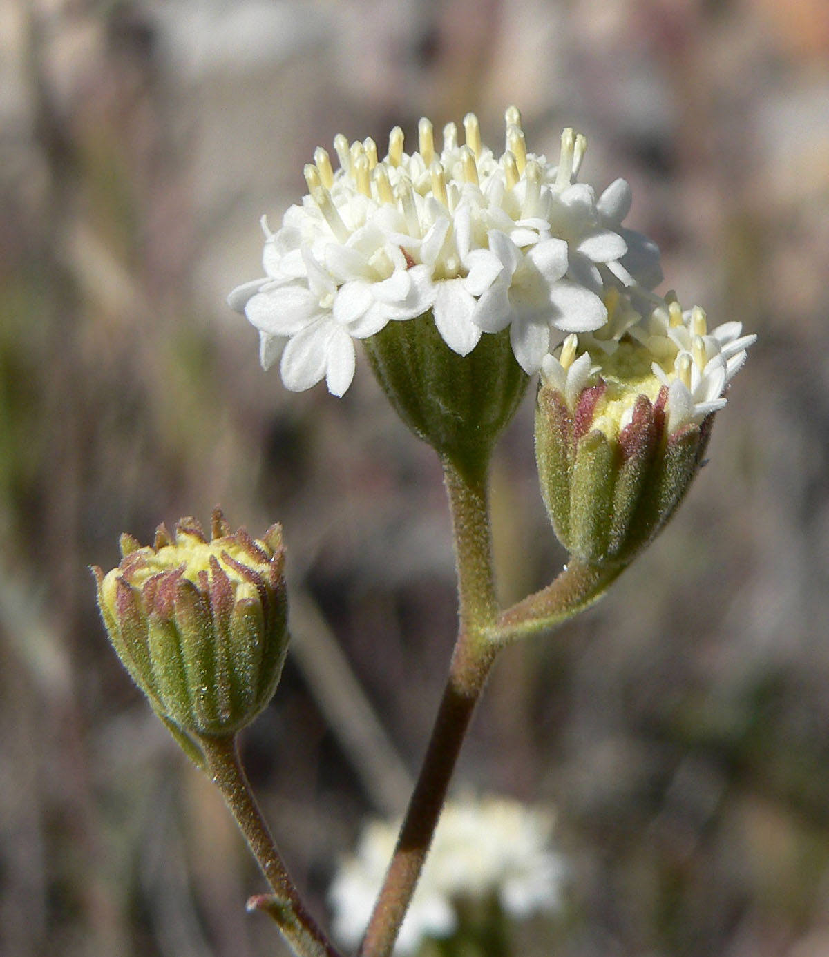 Chaenactis stevioides in Bonanza Wash, between Columbia Pass and Sandy Valley, Spring Mountains, southern Nevada (elev. about 1000 m)